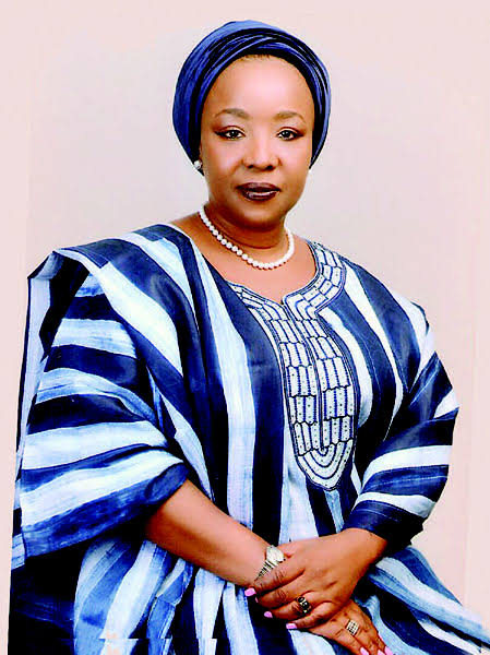 Portrait of Sharon Ikeazor